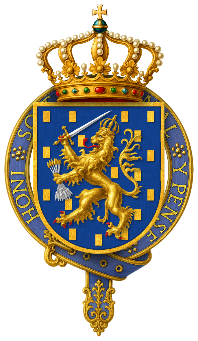 Garter-encircled Royal Arms of Wilhelmina, Queen of the Netherlands